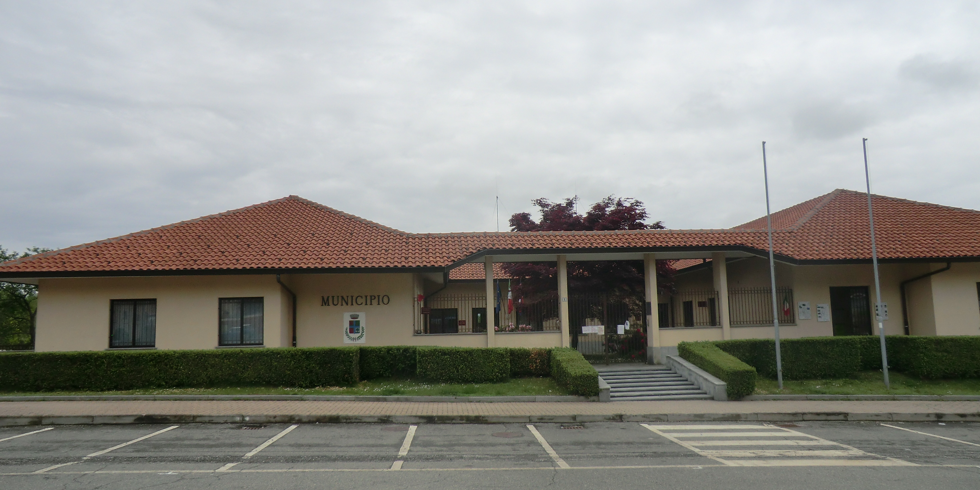 Fiano (Torino - Italy): town hall